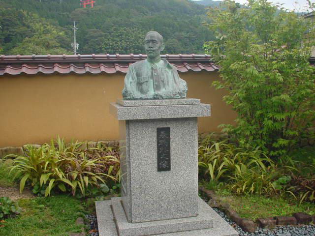 Mori Ogai statue in Tsuwano Taken and uploaded by Ian Ruxton (Historian)